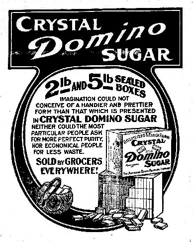 Newspaper ad for Crystal Domino sugar.